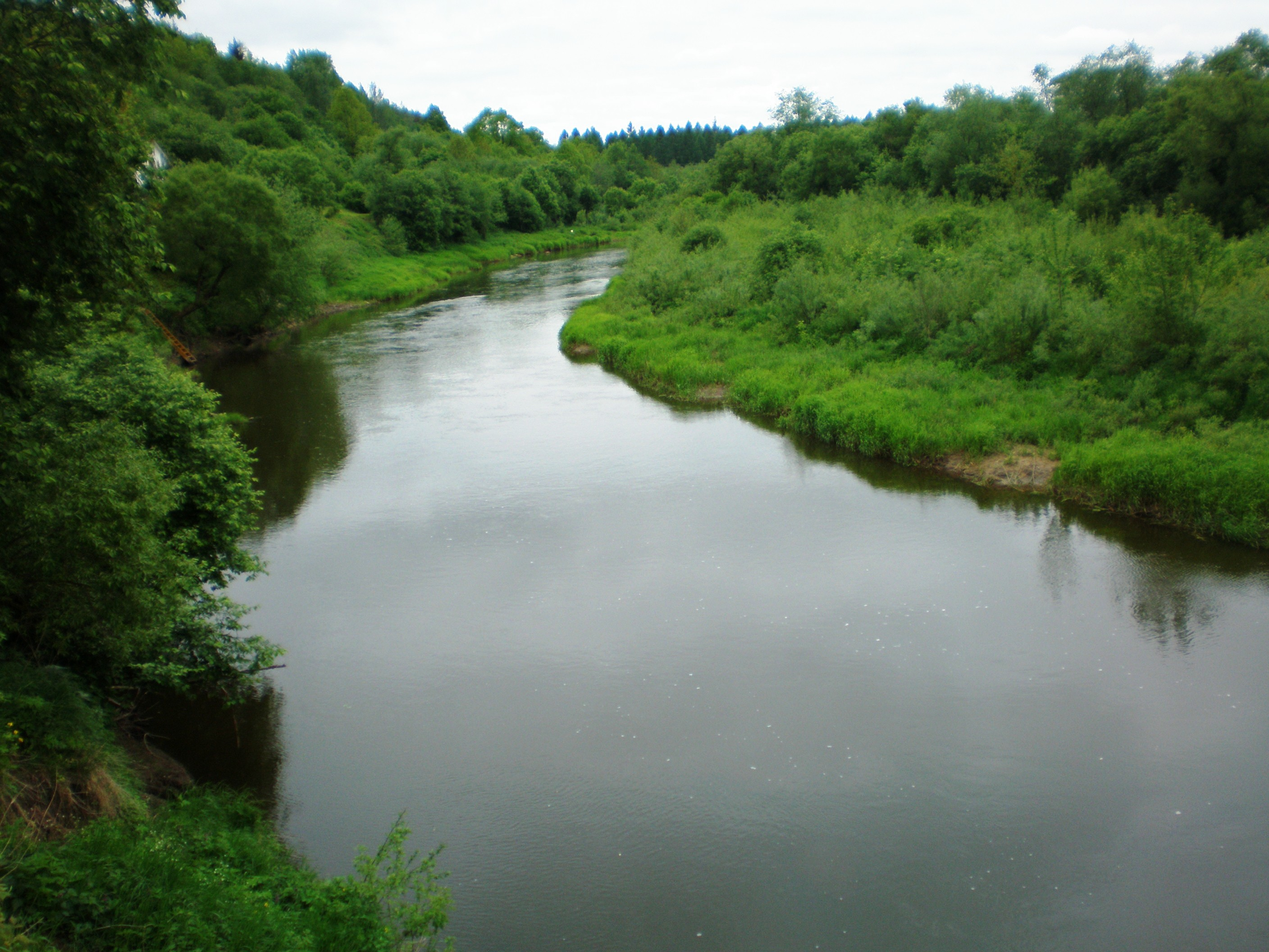 Dubysa River near Ariogala. Lithuania